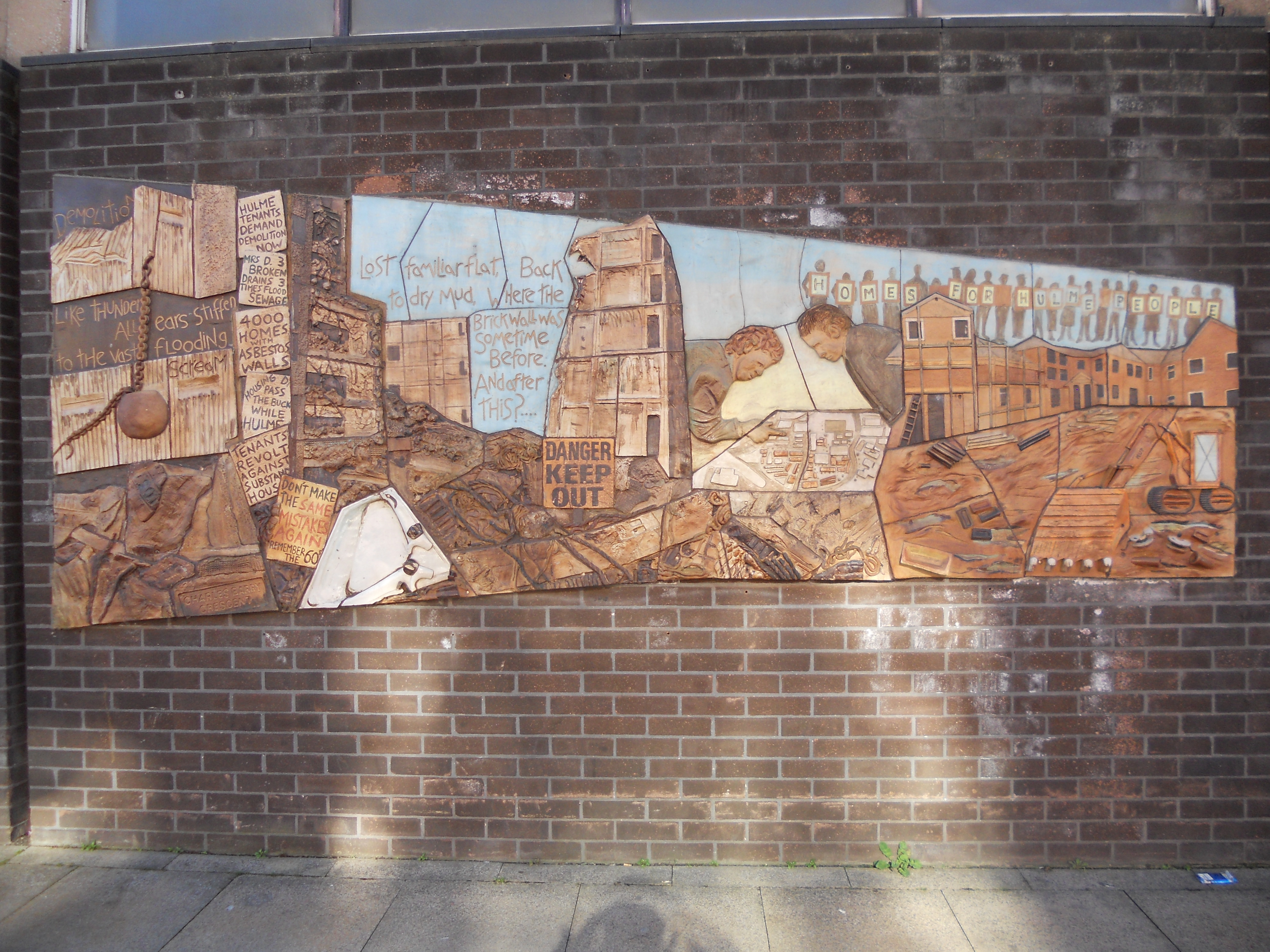 Hulme Library mural detail demolition and rebuild.